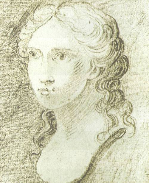 Portrait of Luisa Sanfelice